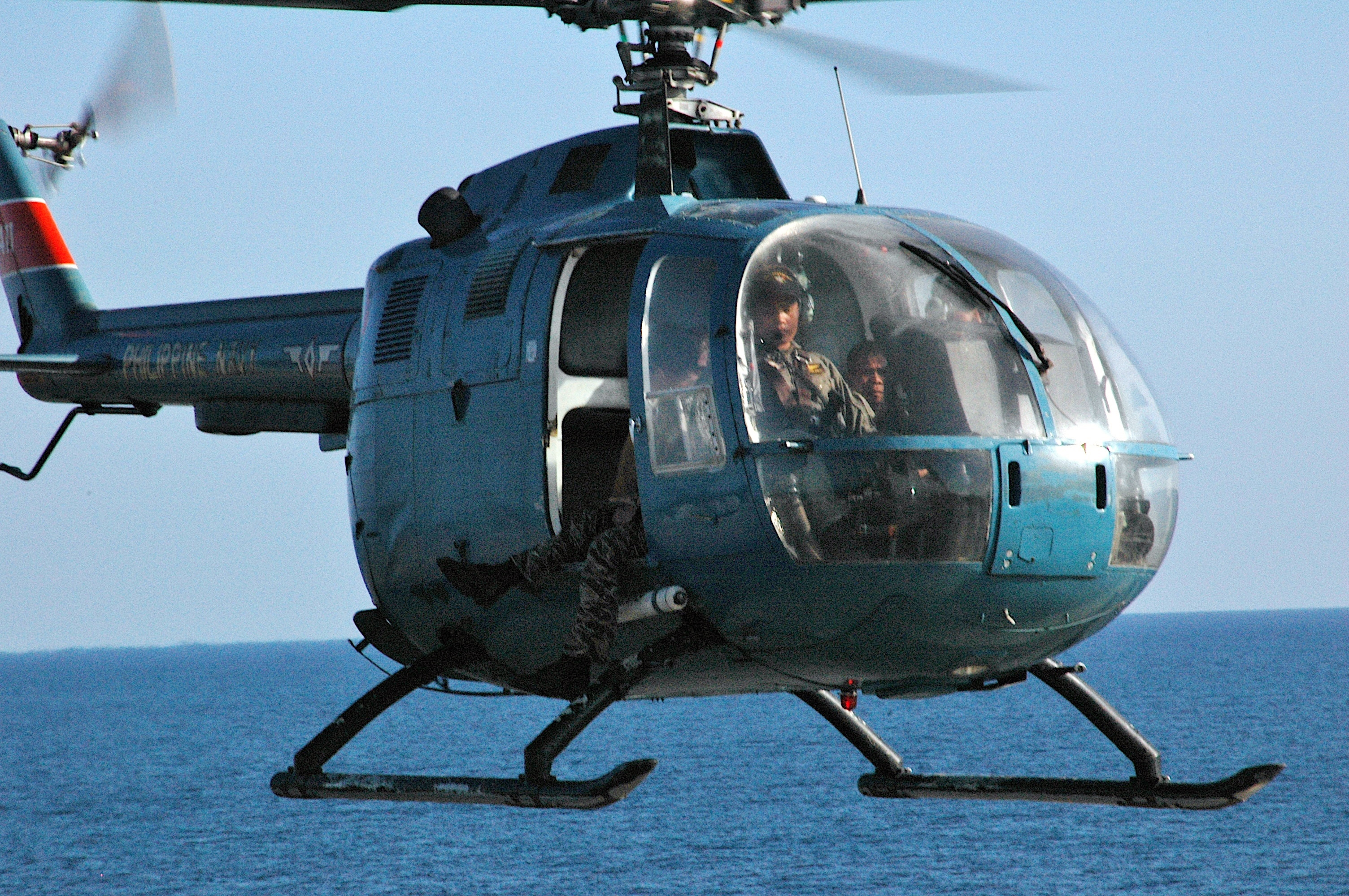 A Philippine Navy BO-105C helicopter from Multipurpose Helicopter Squadron Forty (MH-40) lands on board USS Essex (LHD 2) as Philippine naval aviators perform Deck Landing Qualifications (DLQ) and High Angle Sniping as part of Amphibious Landing Exercise (PHIBLEX '07) and Talon Vision (TV 07).